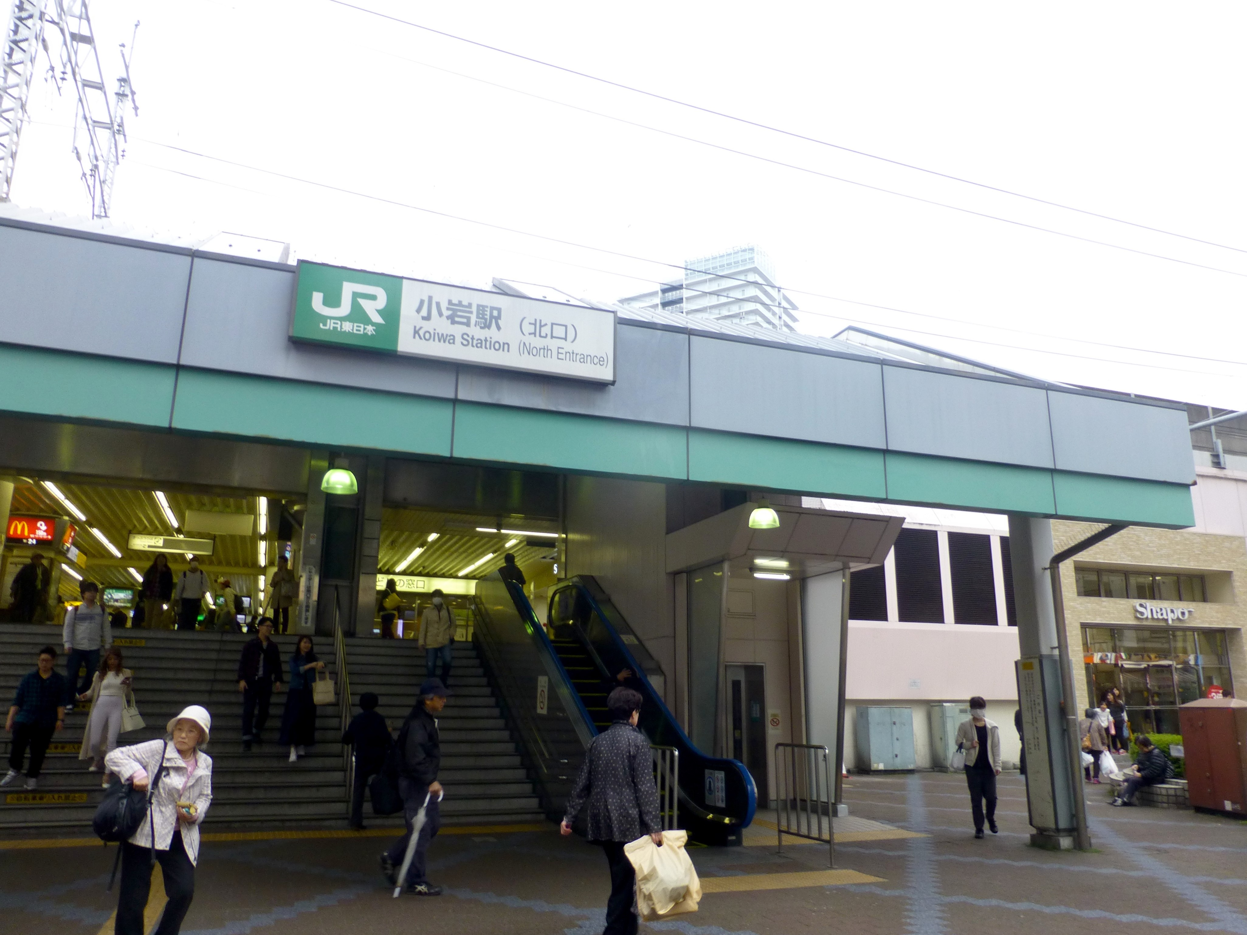 The north entrance to Koiwa Station in Tokyo